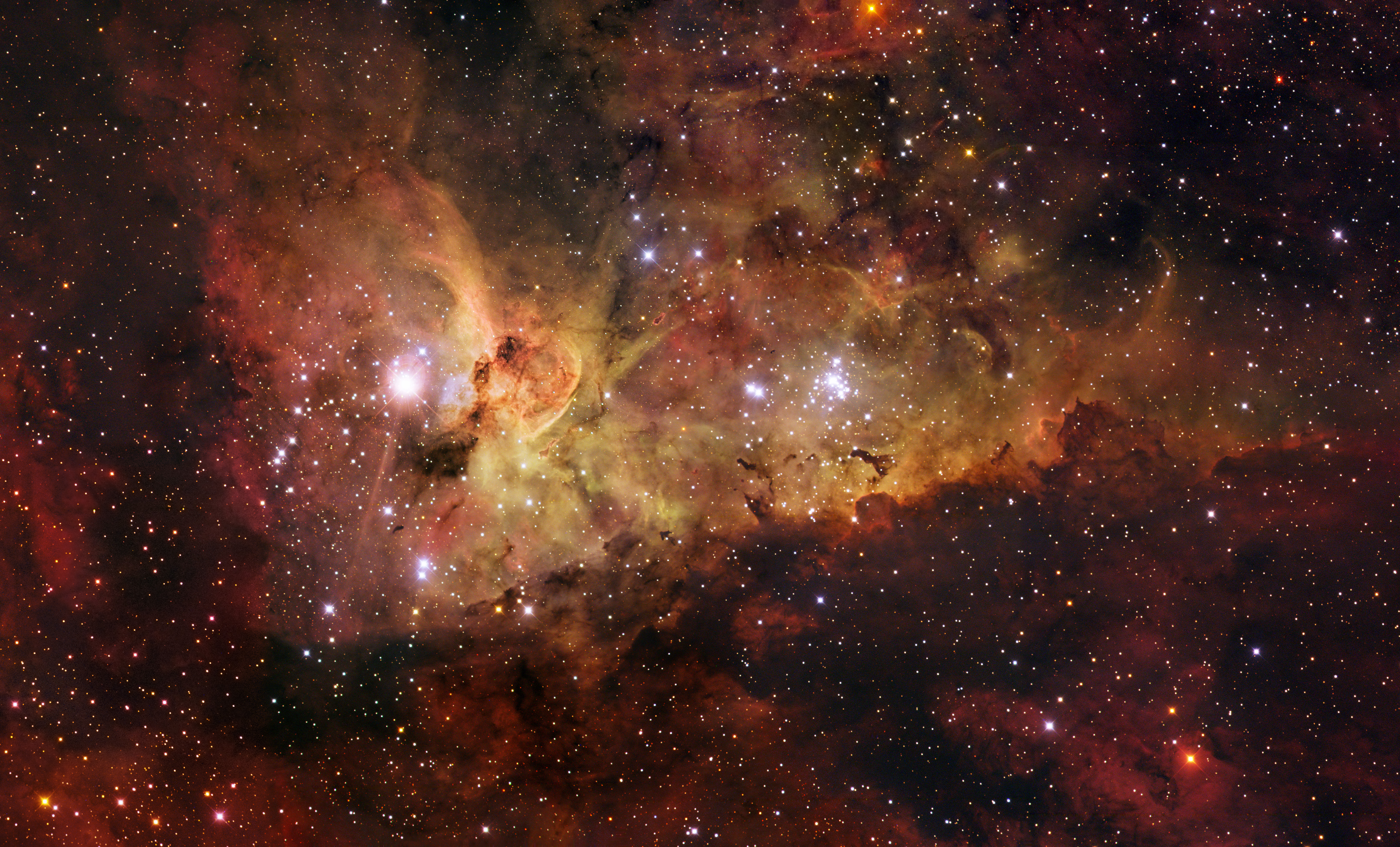 The Carina Nebula is a large bright nebula that surrounds several clusters of stars. It contains two of the most massive and luminous stars in our Milky Way galaxy, Eta Carinae and HD 93129A. Located 7500 light years away, the nebula itself spans some 260 light years across, about 7 times the size of the Orion Nebula, and is shown in all its glory in this mosaic. It is based on images collected with the 1.5-m Danish telescope at ESO's La Silla Observatory. Being brighter than one million Suns, Eta Carinae (the brightest star in this image) is the most luminous star known in the Galaxy, and has most likely a mass over 100 times that of the Sun. It is the closest example of a luminous blue variable, the last phase in the life of a very massive star before it explodes in a fiery supernova. Eta Carinae is surrounded by an expanding bipolar cloud of dust and gas known as the Homunculus (little man in Latin), which astronomers believe was expelled from the star during a great outburst seen in 1843.